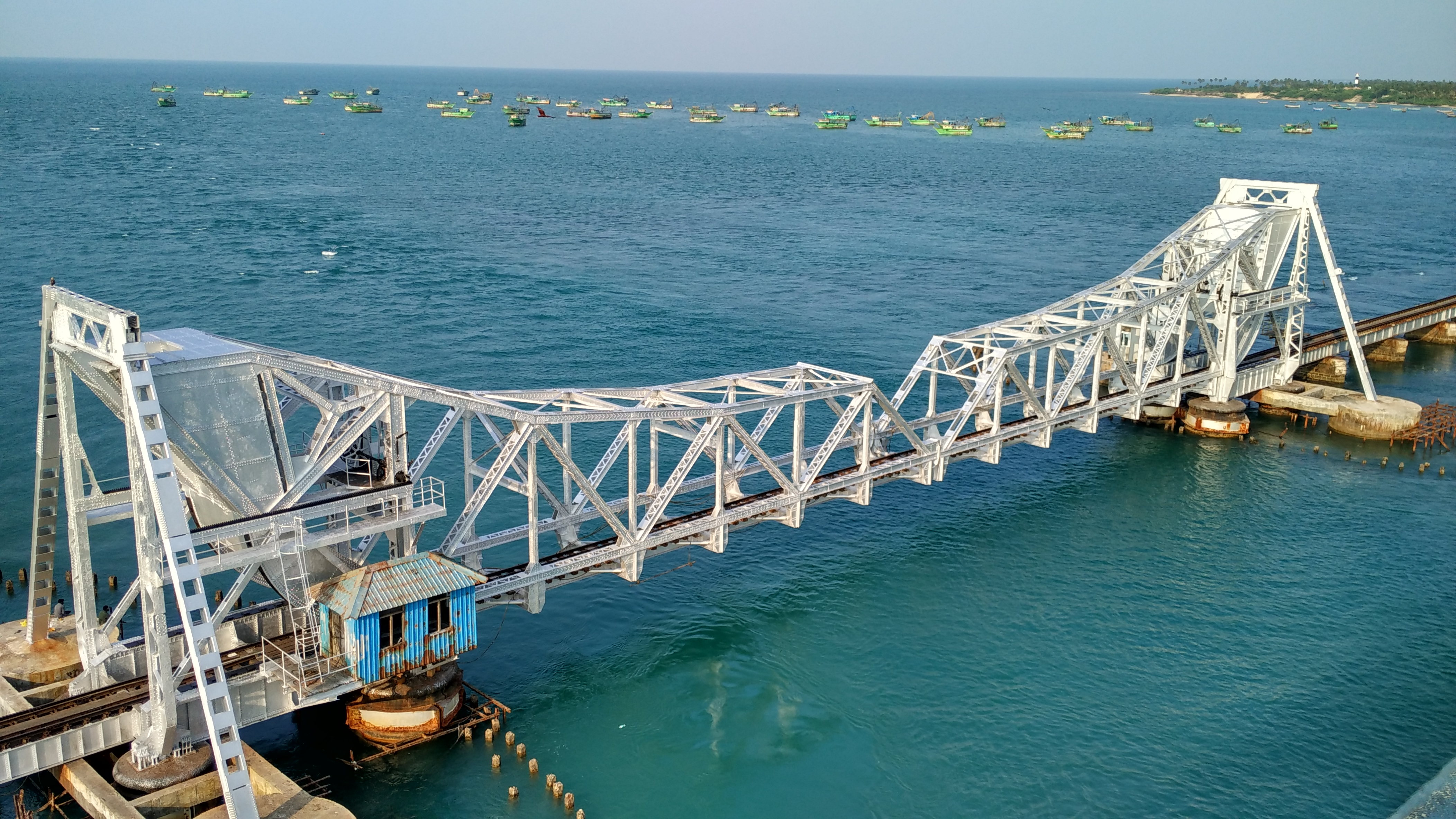 Pamban bridge, Rameswaram, Tamilnadu, India